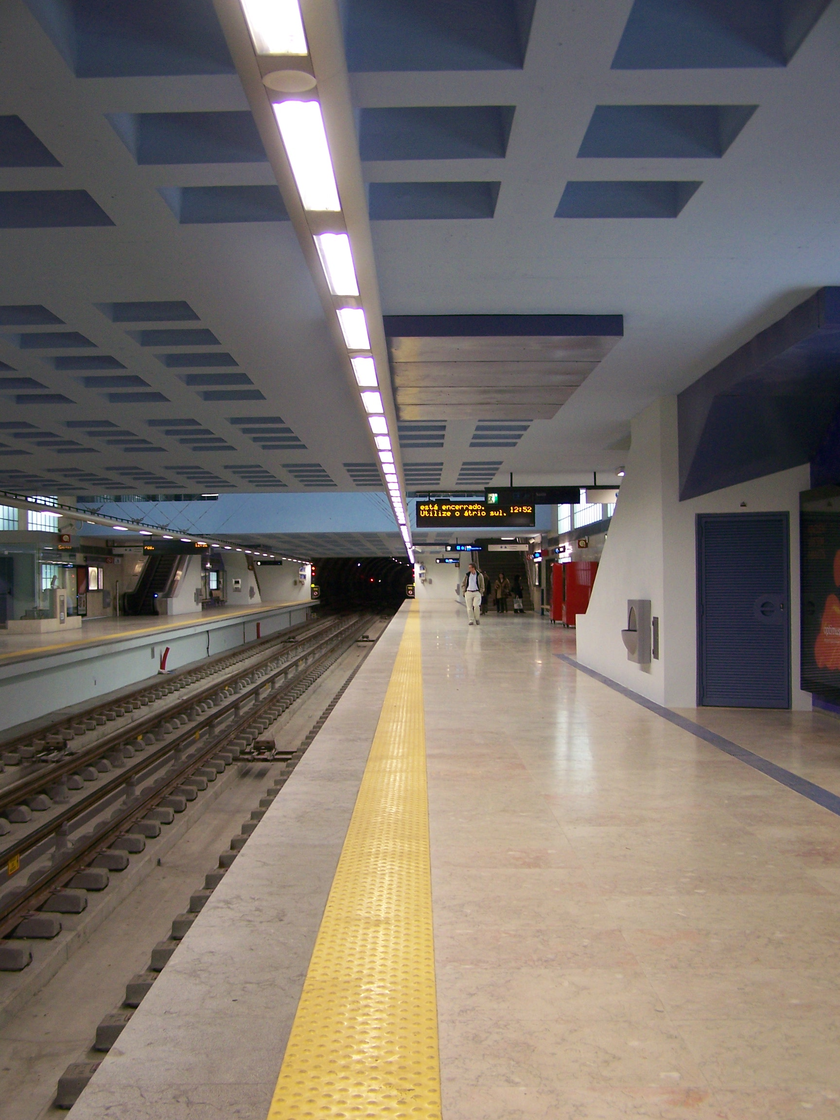 the Lisbon underground station Santa Apolónia, blue line